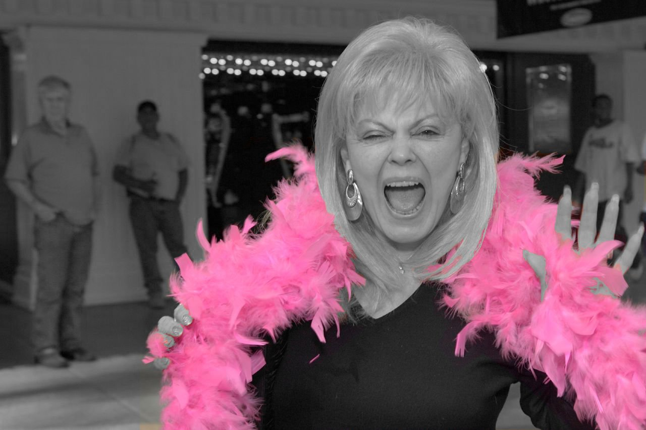 A pink feather boa, colour isolated